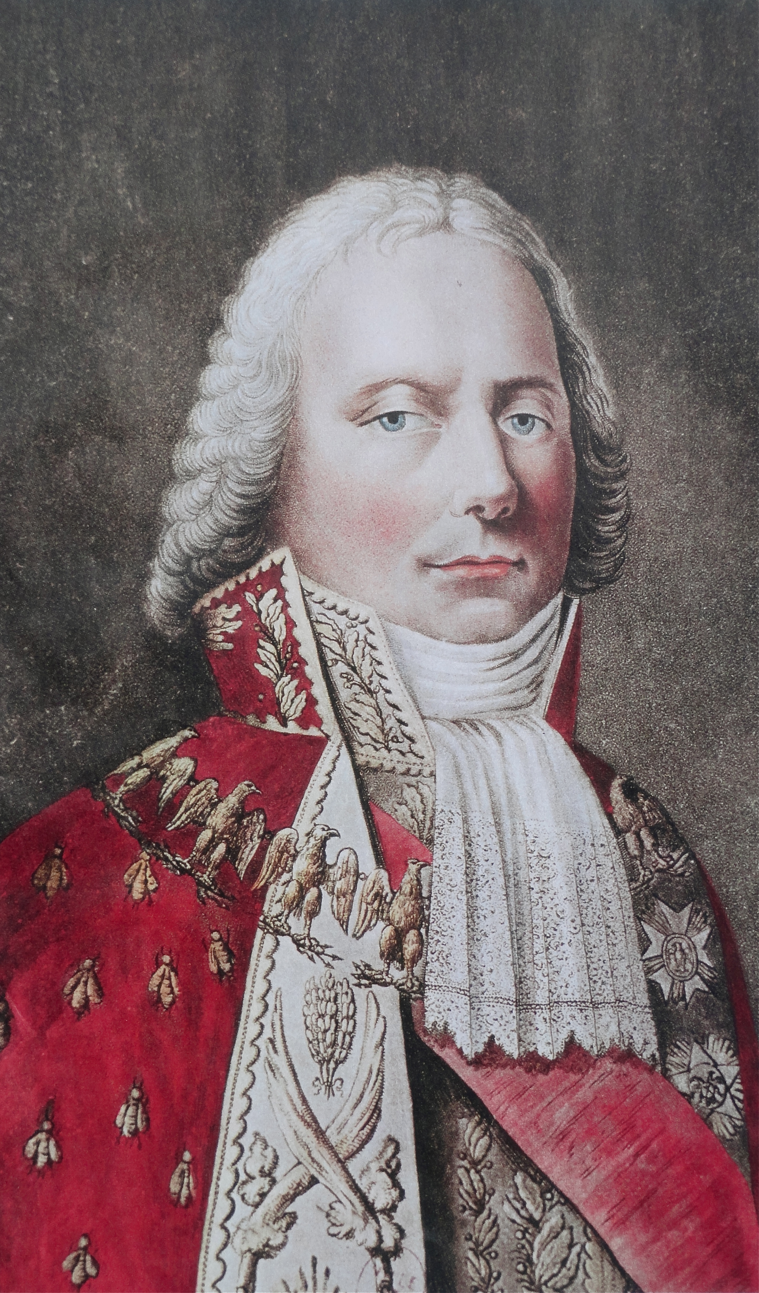 Charles-Maurice de Talleyrand